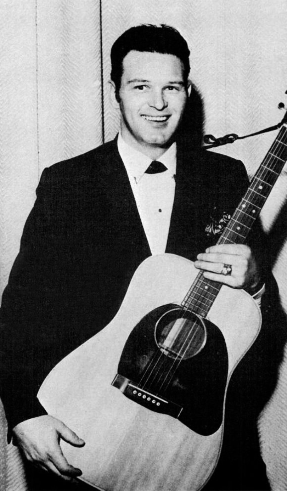 Trade ad for David Houston's single "Livin' in a House Full of Love".To better adapt it to his respective Wikipedia article, the ad was cropped and cleaned in a graphics editing program. The original can be viewed on the source below.